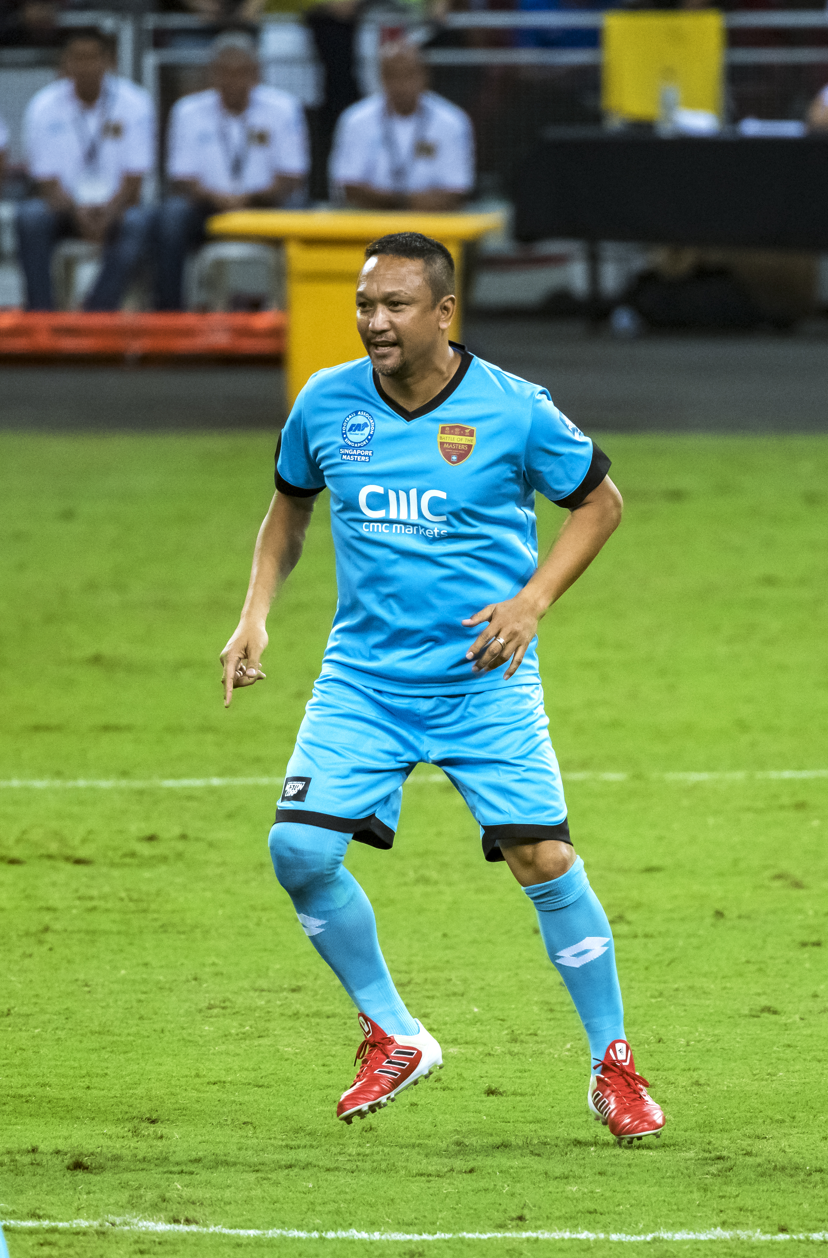 fandi ahmad Singapore masters national stadium 2017